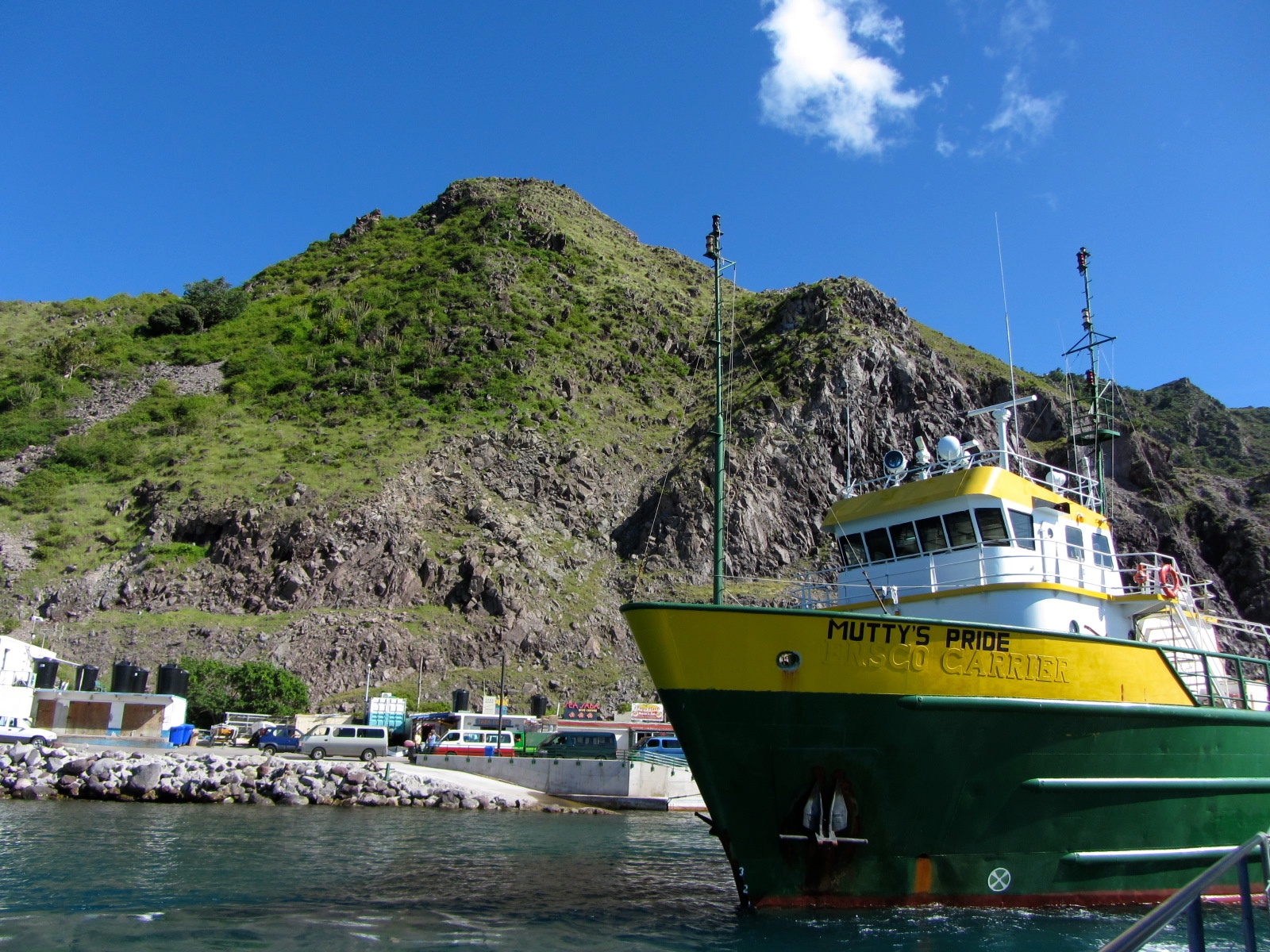 Fort Bay with Mutty's Pride